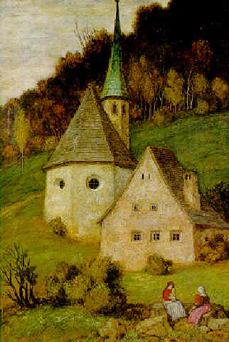 A hillside chapel. Oil on Panel. 59,7 x 39,2 cm.